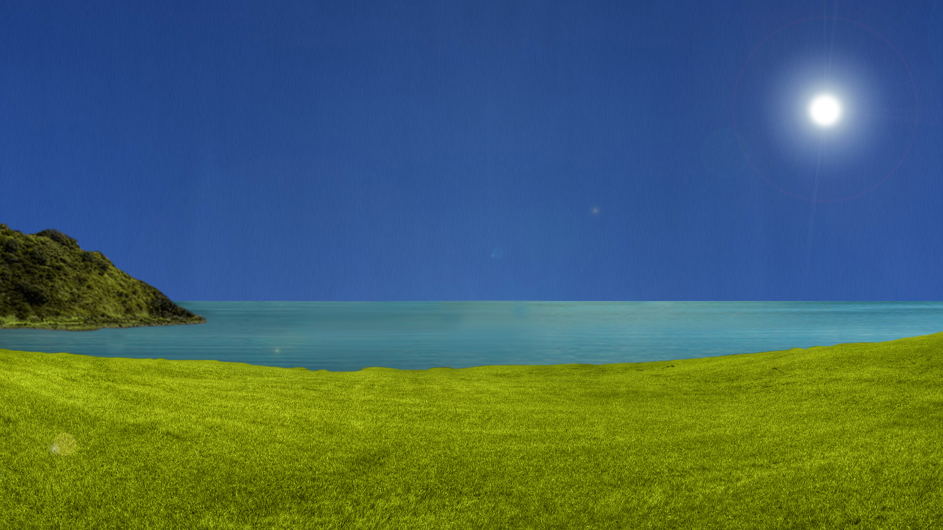 Landscape designed in Adobe Photoshop CS5 Extended.